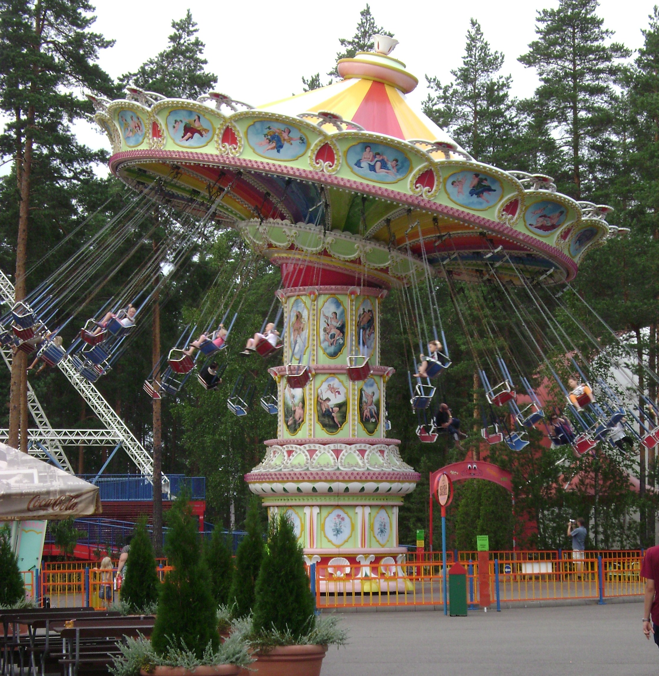 Keinukaruselli (Wave Swinger) in Tykkimäki amusement park, Kouvola, Finland.